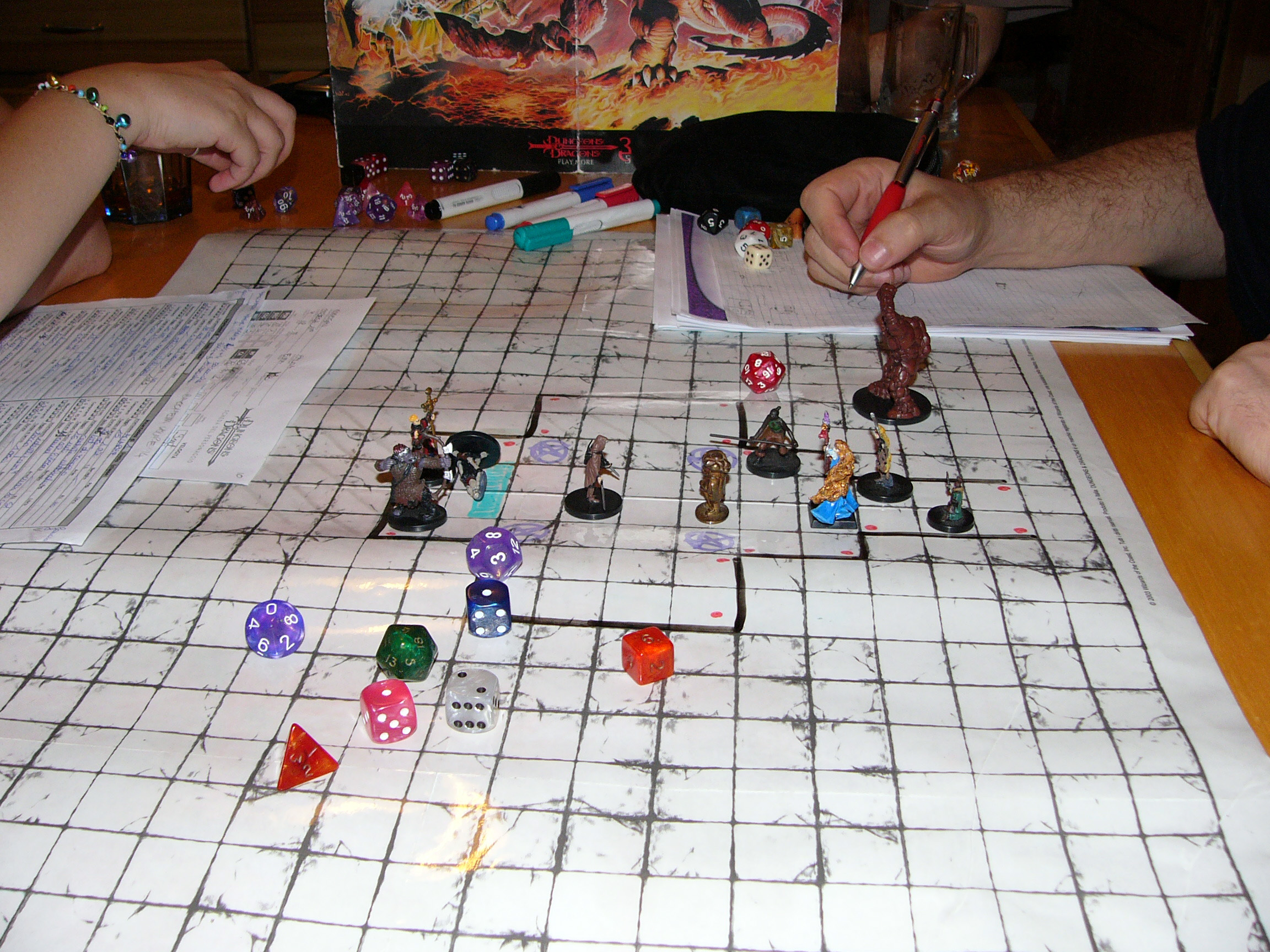 The picture show the map of a Dungeons and Dragons game, I ("Rocco Pier Luigi", user:Moroboshi took this pictures the 13 July 2005